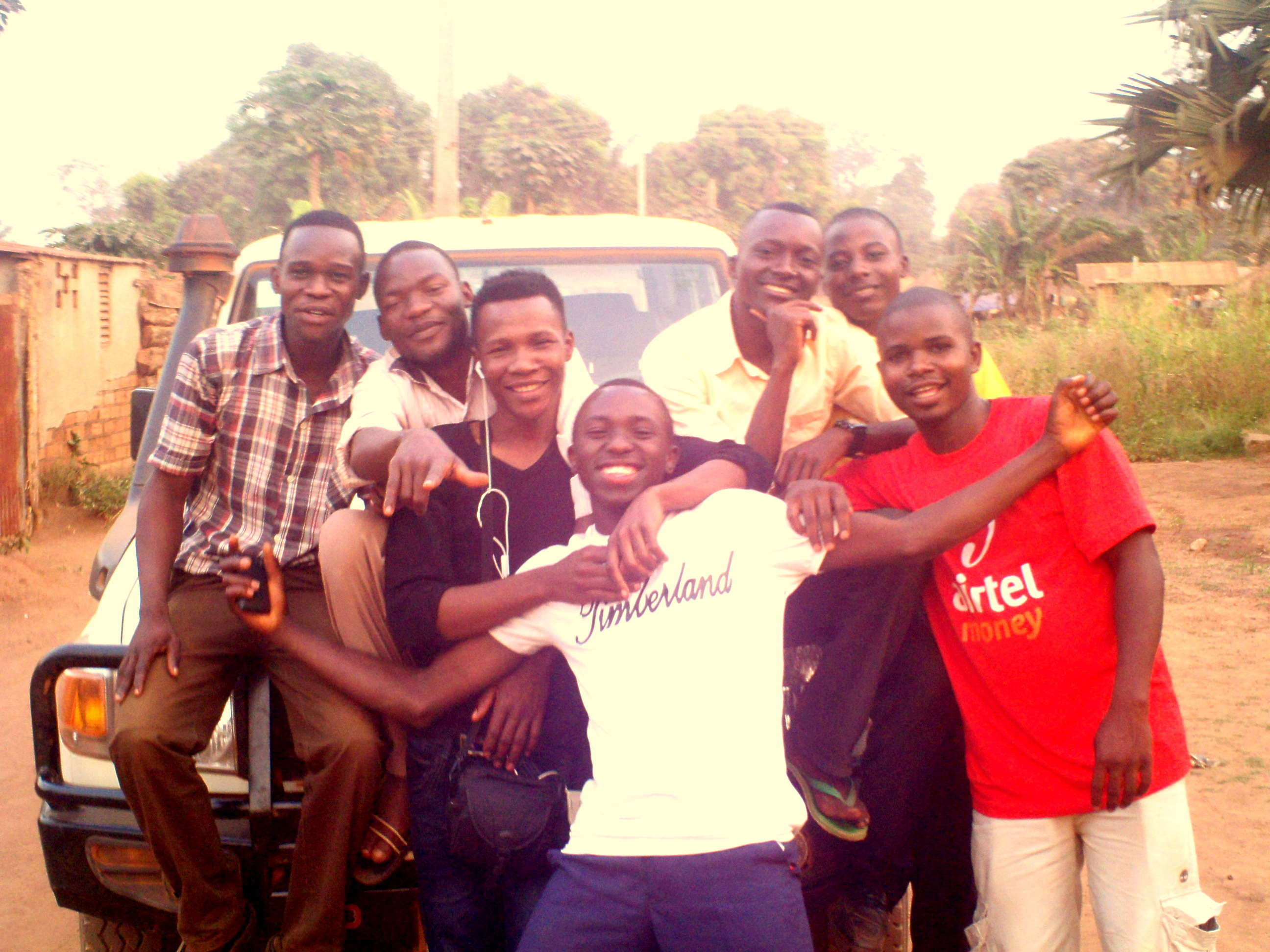 These are young people of Yambio City